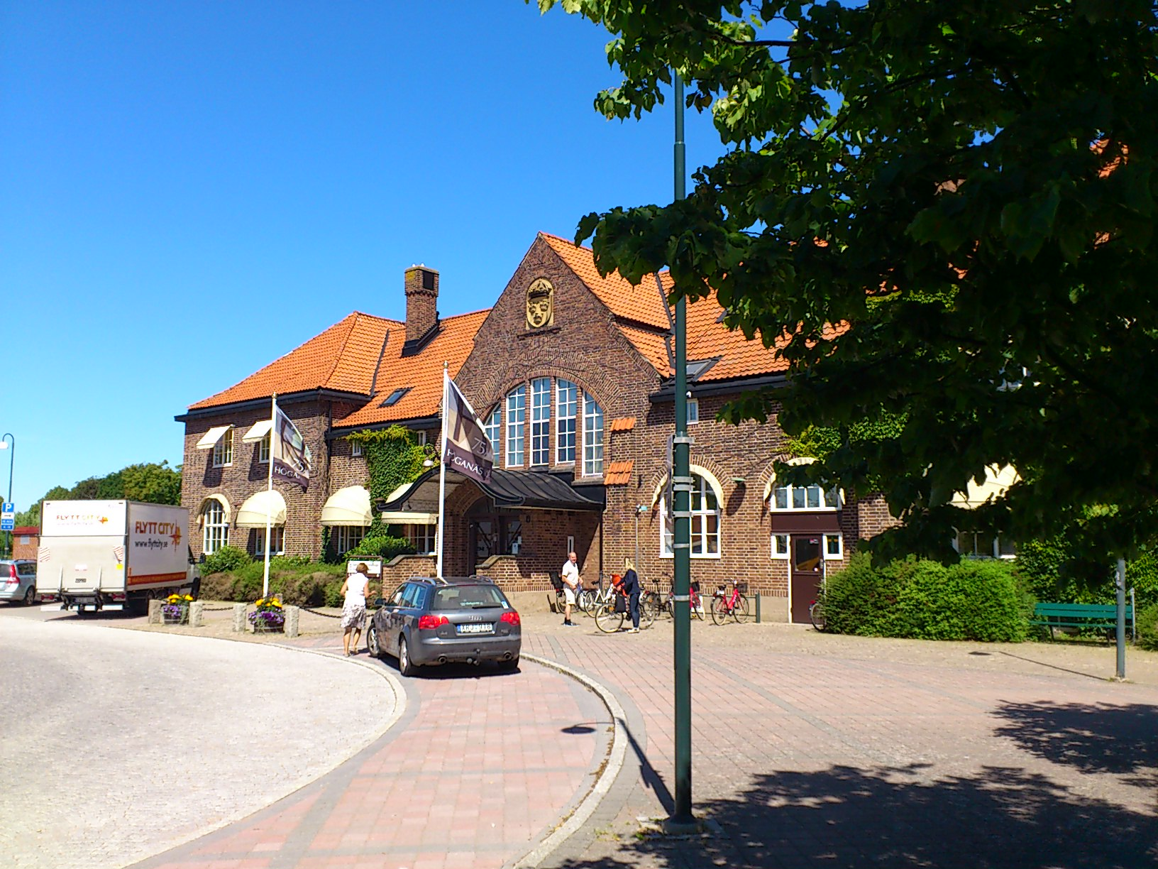 The railway station in Höganäs, Sweden